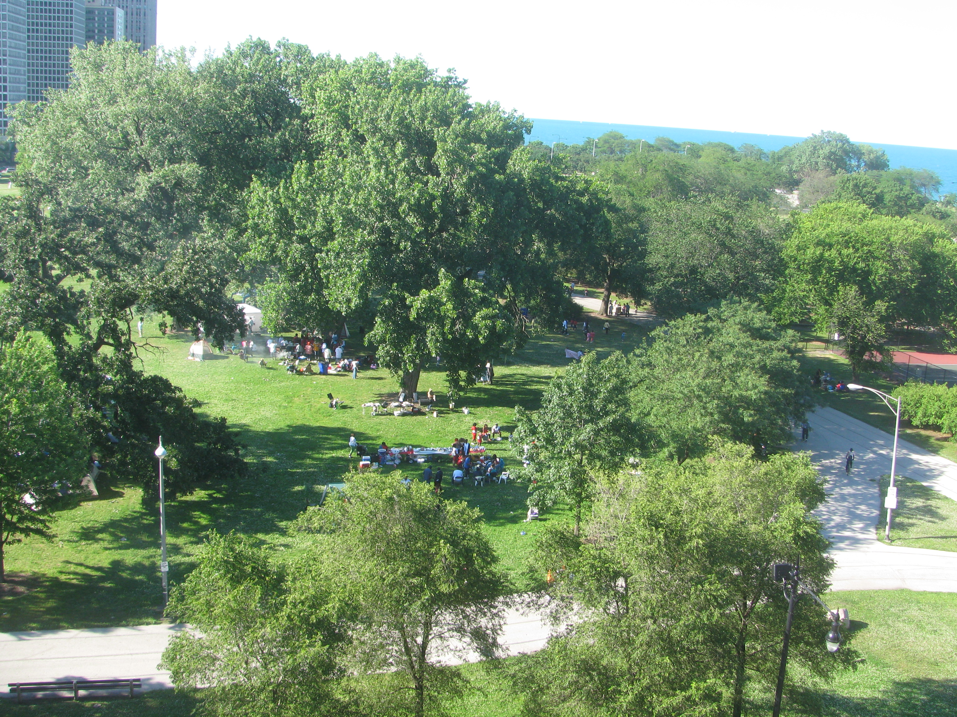 Harold Washington Park on July 4th